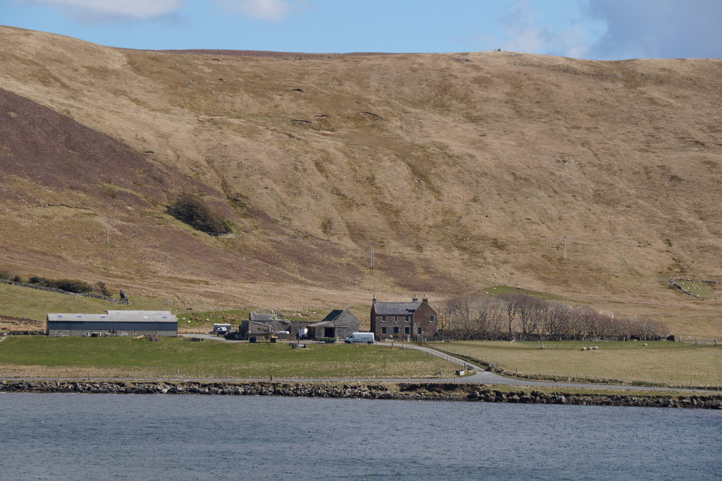 Huxter, Weisdale